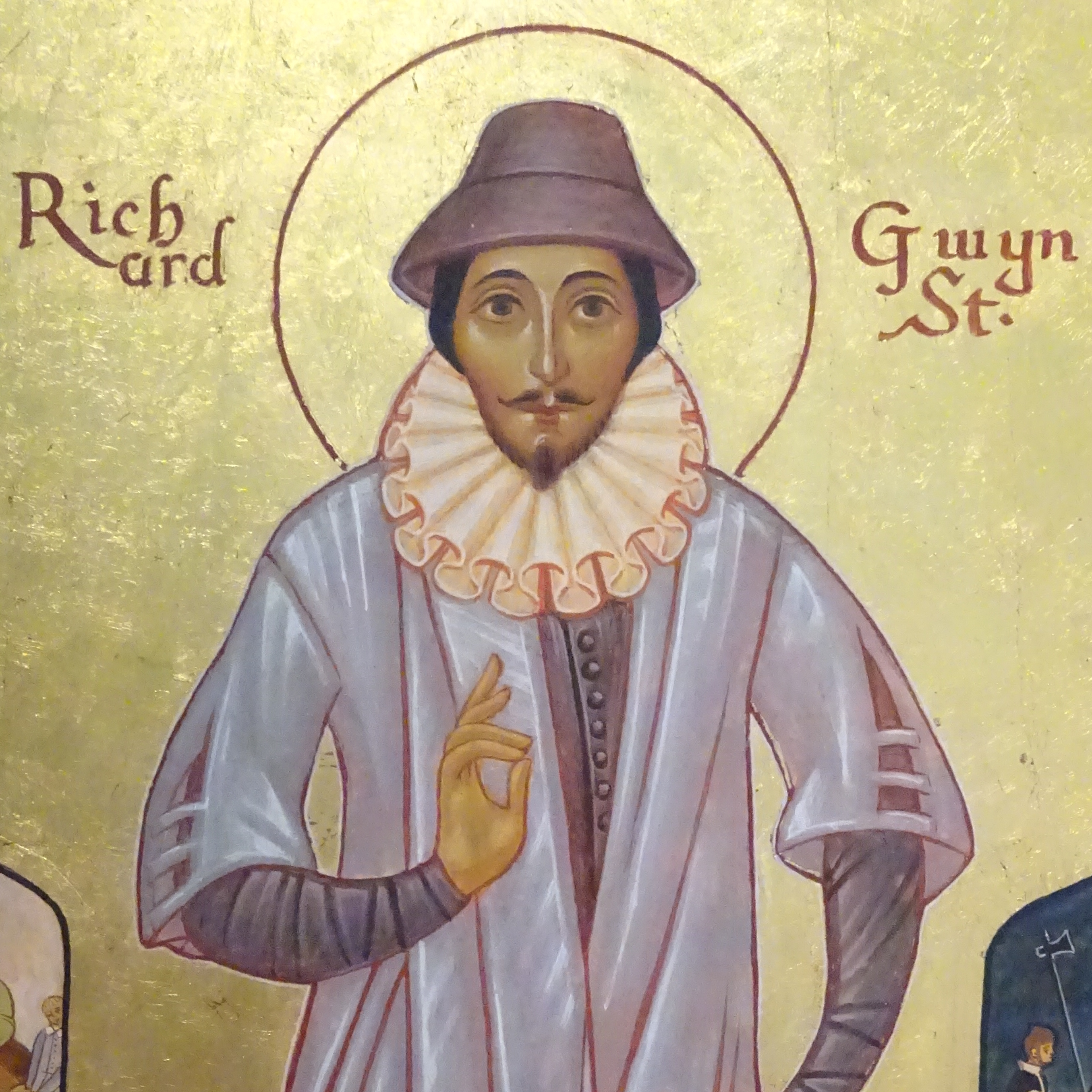 The Cathedral Church of Our Lady of Sorrows also known as Wrexham Cathedral is a Roman Catholic cathedral in Wrexham, Wales. It is the seat of the Bishop of Wrexham, and mother church of the Roman Catholic Diocese of Wrexham.